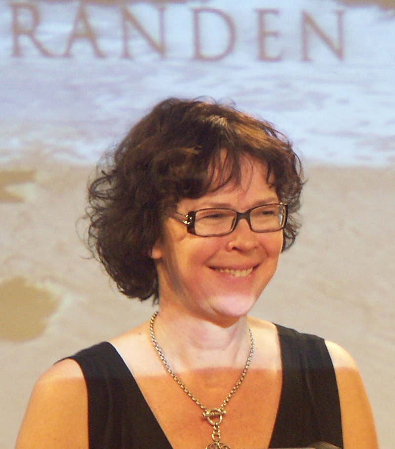 Swedish dramatist Tove Alsterdal.